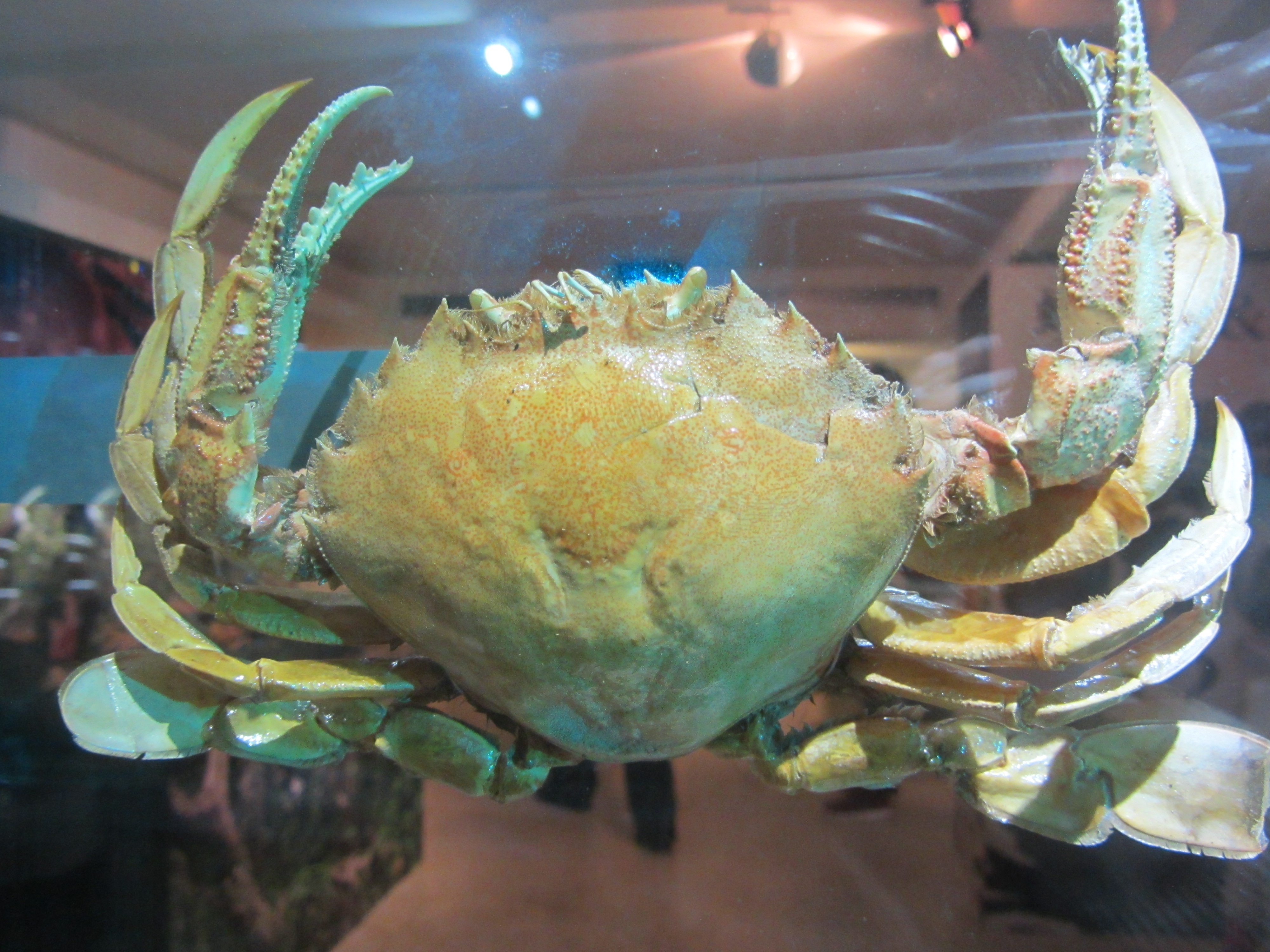 Specimen of Ovalipes punctatus